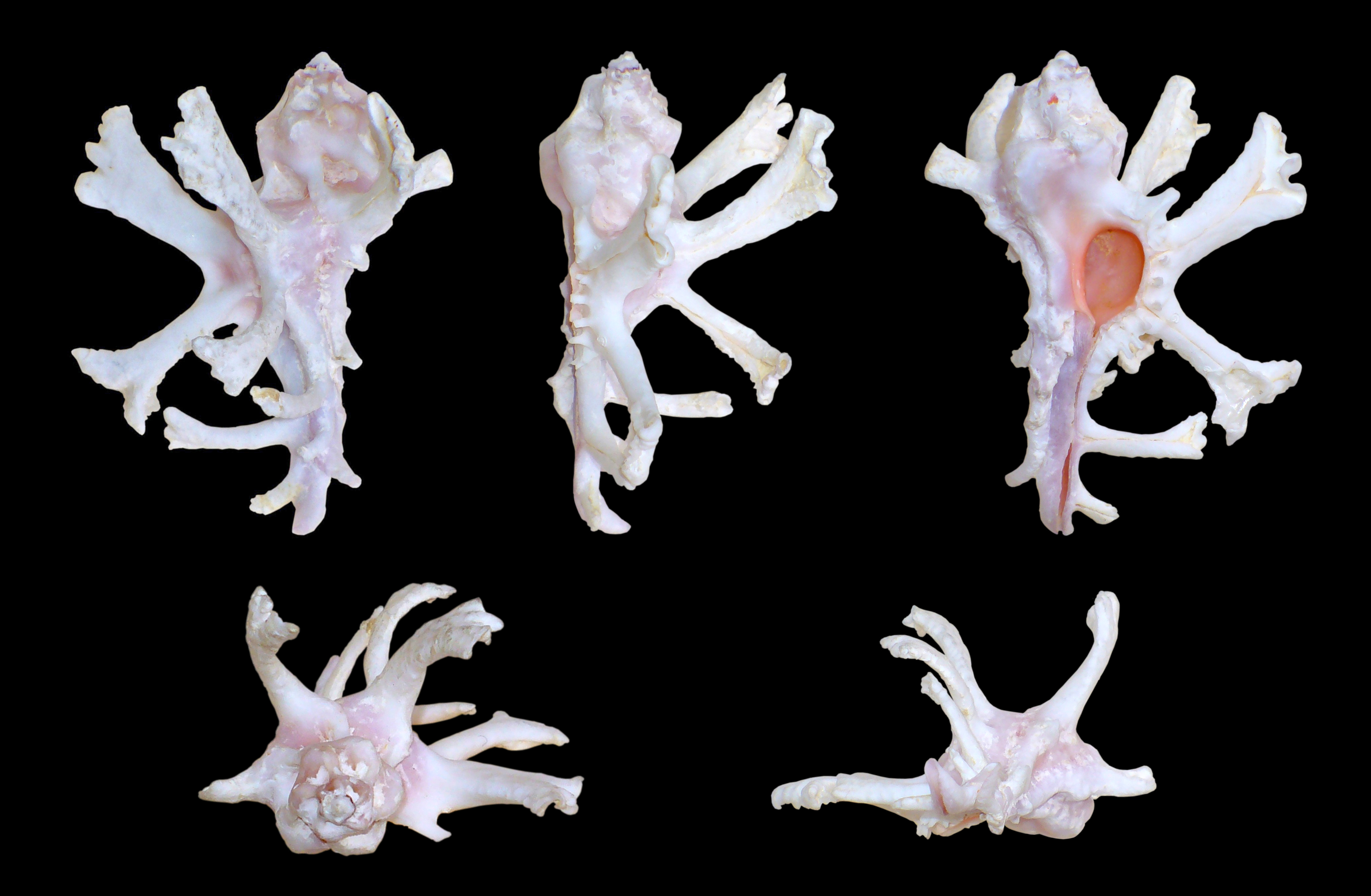 Anatomical Murex ; Length 5.0 cm; Originating from Punta Engano, Cebu, Philippines; Shell of own collection, therefore not geocoded. Dorsal, lateral (right side), ventral, back, and front view.